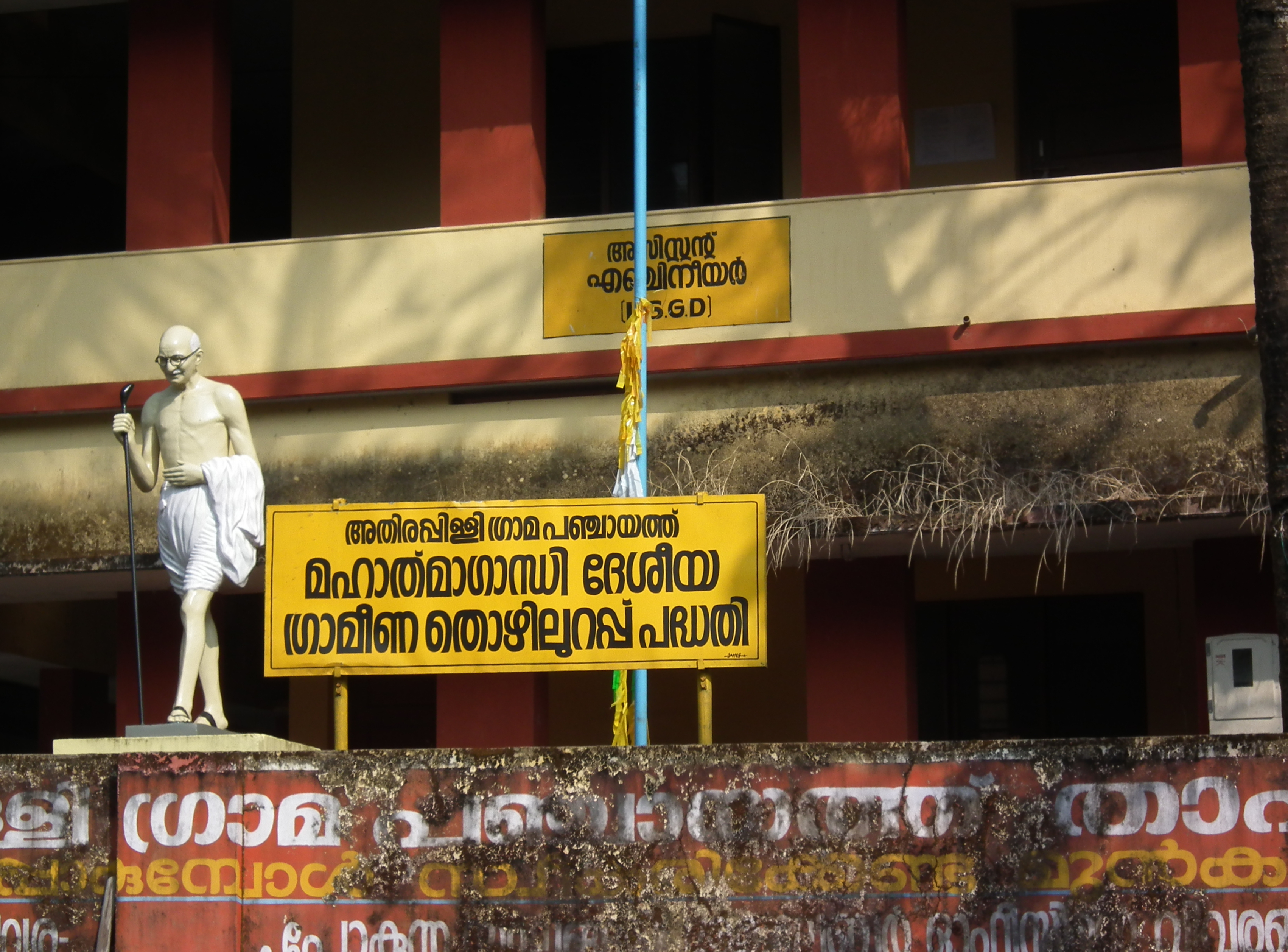 Athirappilly grama panchayath building